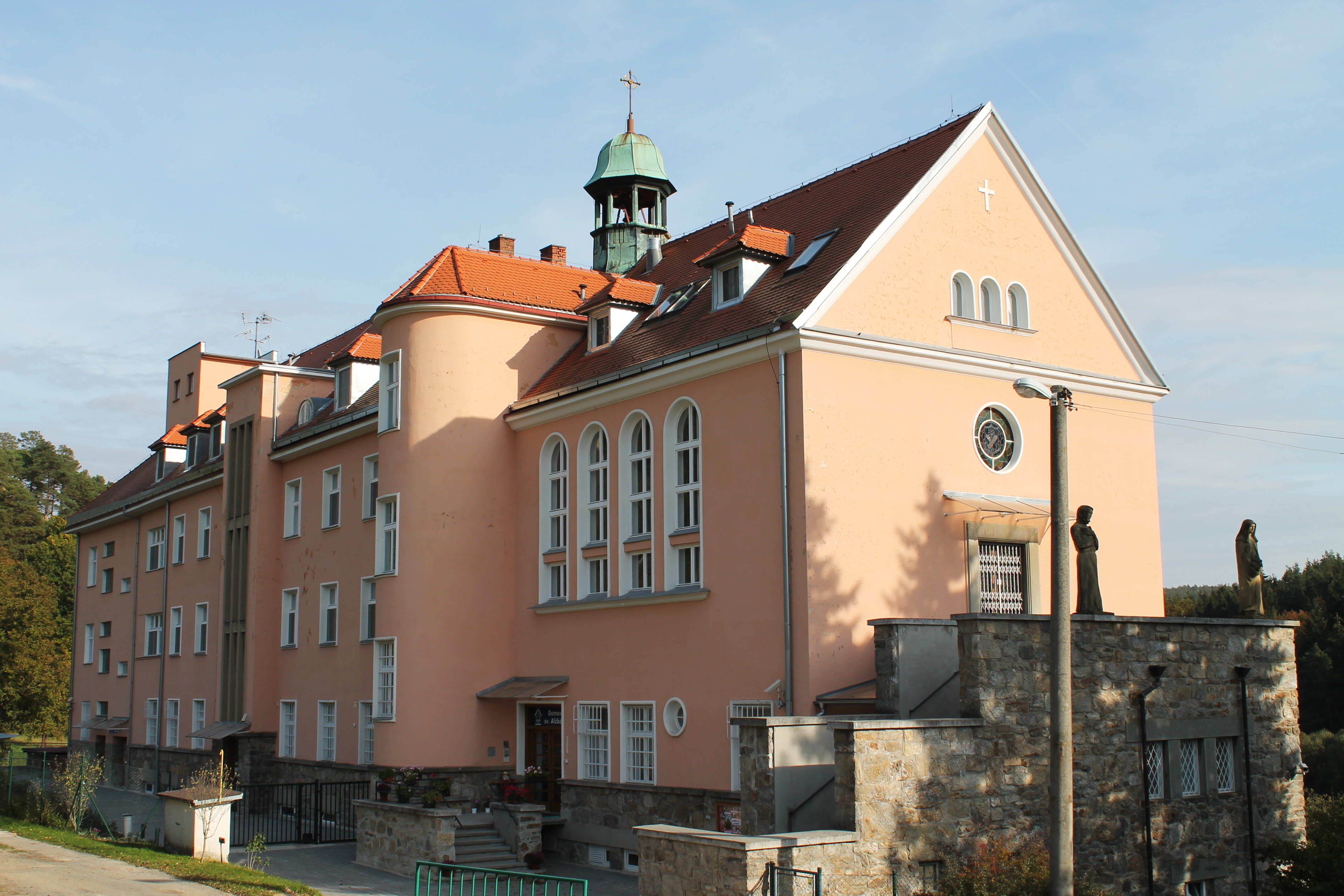 Domov sv. Alžběty in Žernůvka, Nelepeč-Žernůvka, Brno-Country District, Czech Republic - Google Maps - Google Earth